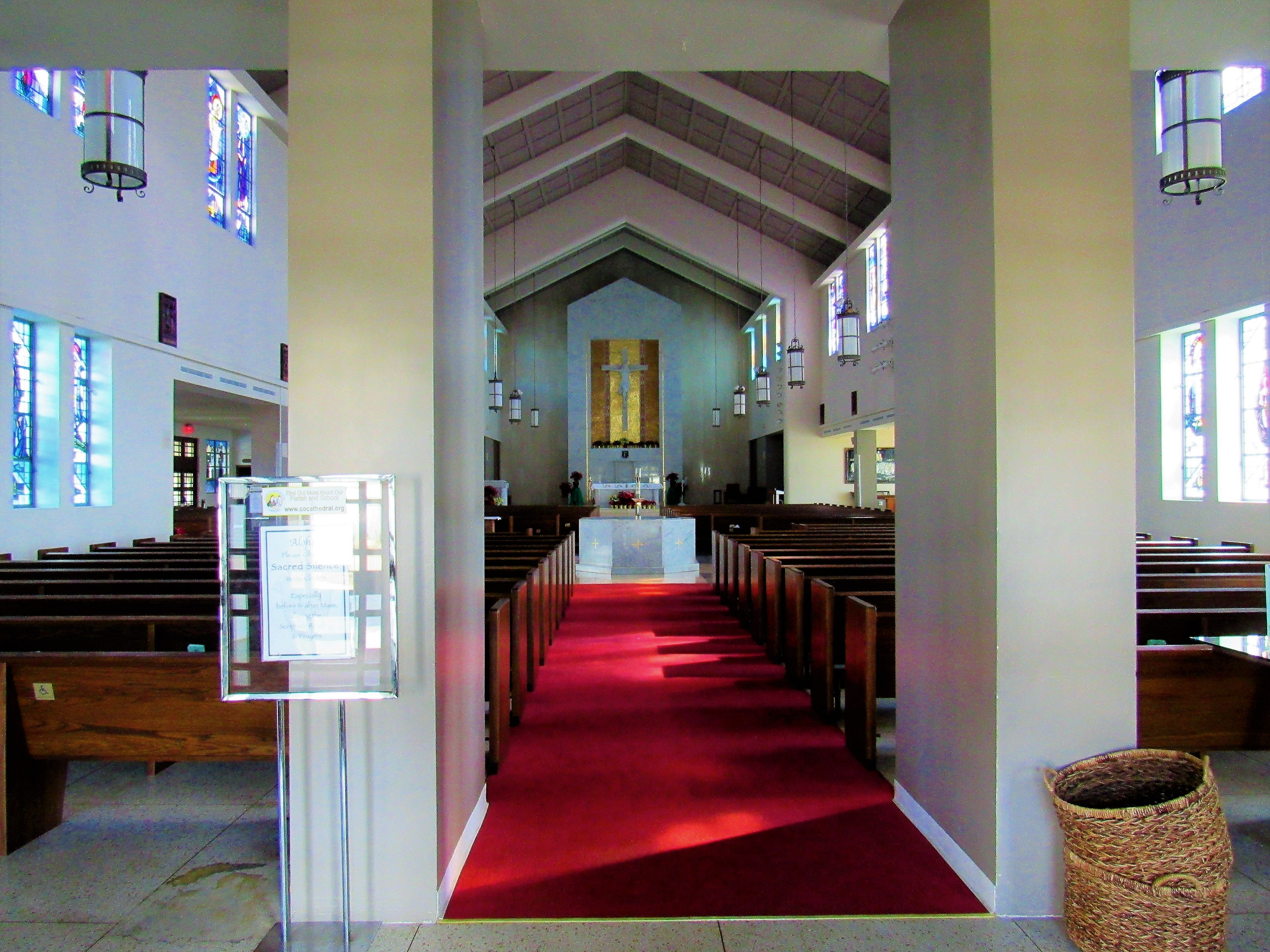 Interior of the Co-Cathedral of Saint Theresa of the Child Jesus in Honolulu, Hawaii.